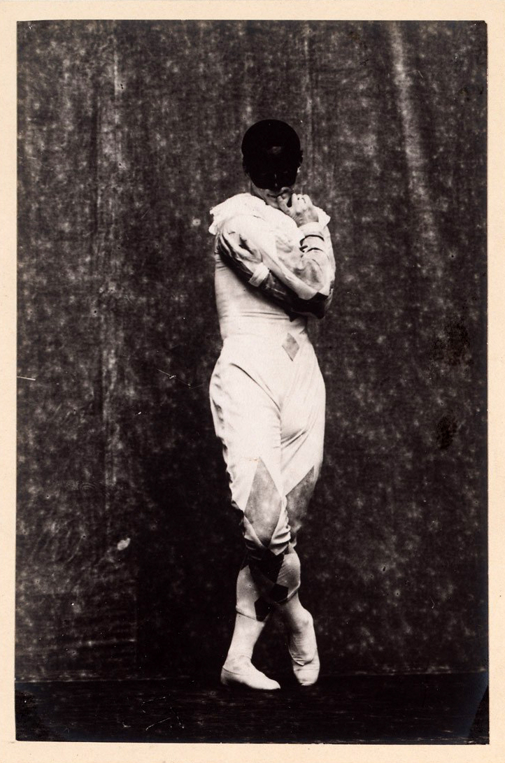 Photographic image of Russian dancer Michel/Mikhail Fokine (1880 – 1942), in costume for Carnaval. MS Thr 414.2 (43), Harvard Theatre Collection, Houghton Library, Harvard University